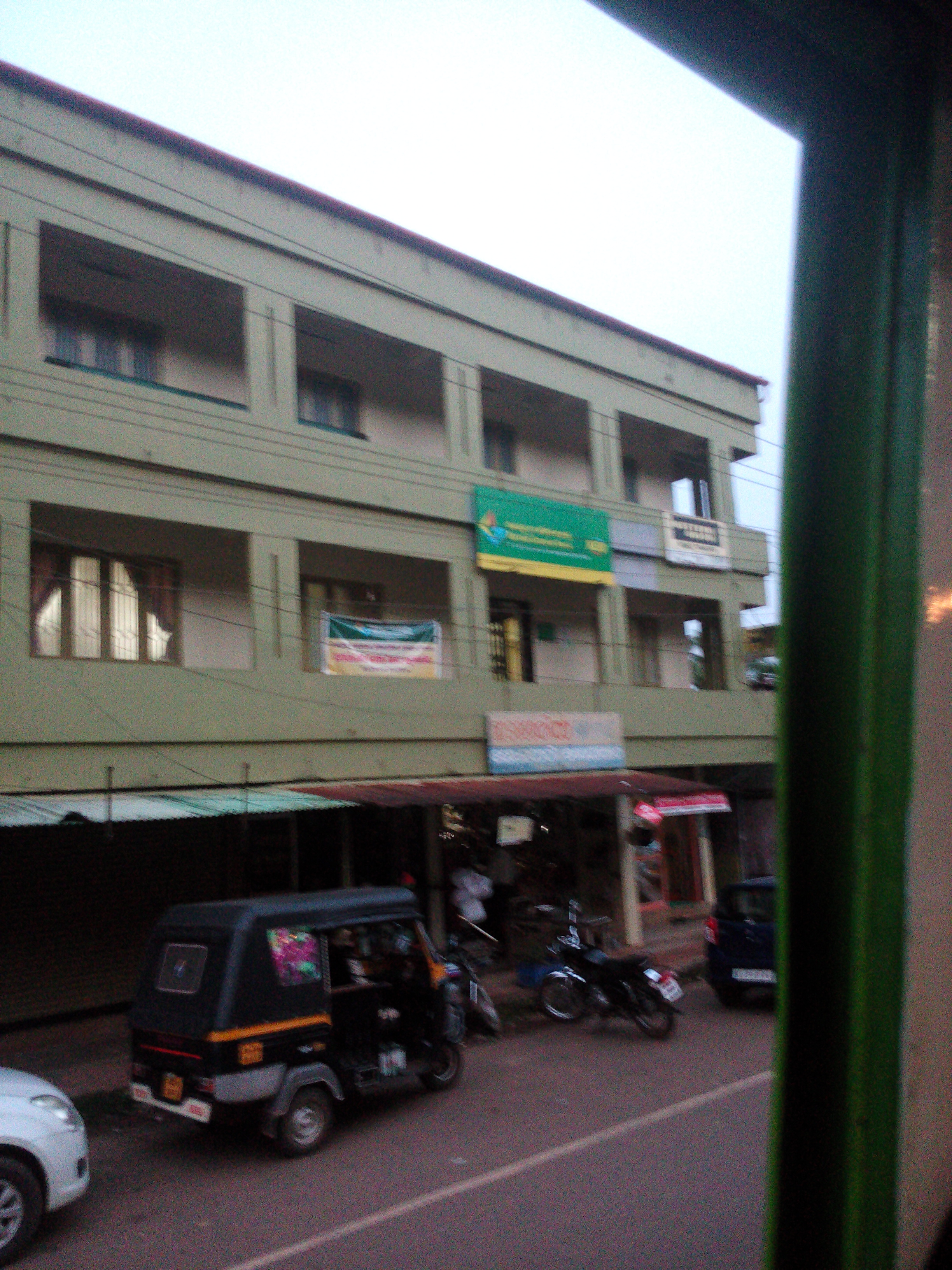 Regional Rural Bank